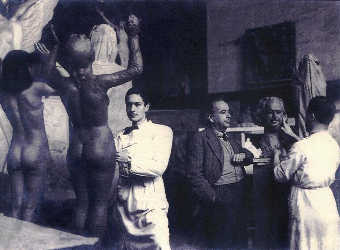 Sculptor Arlindo Rocha and Manuel Pereira da Silva